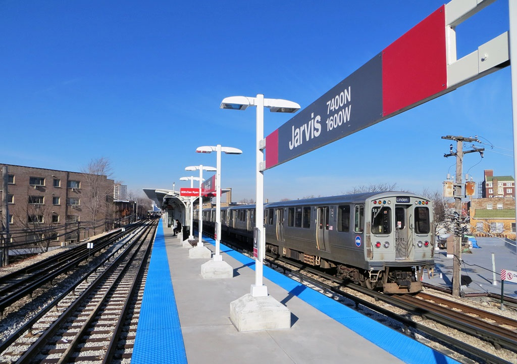 Jarvis CTA station.